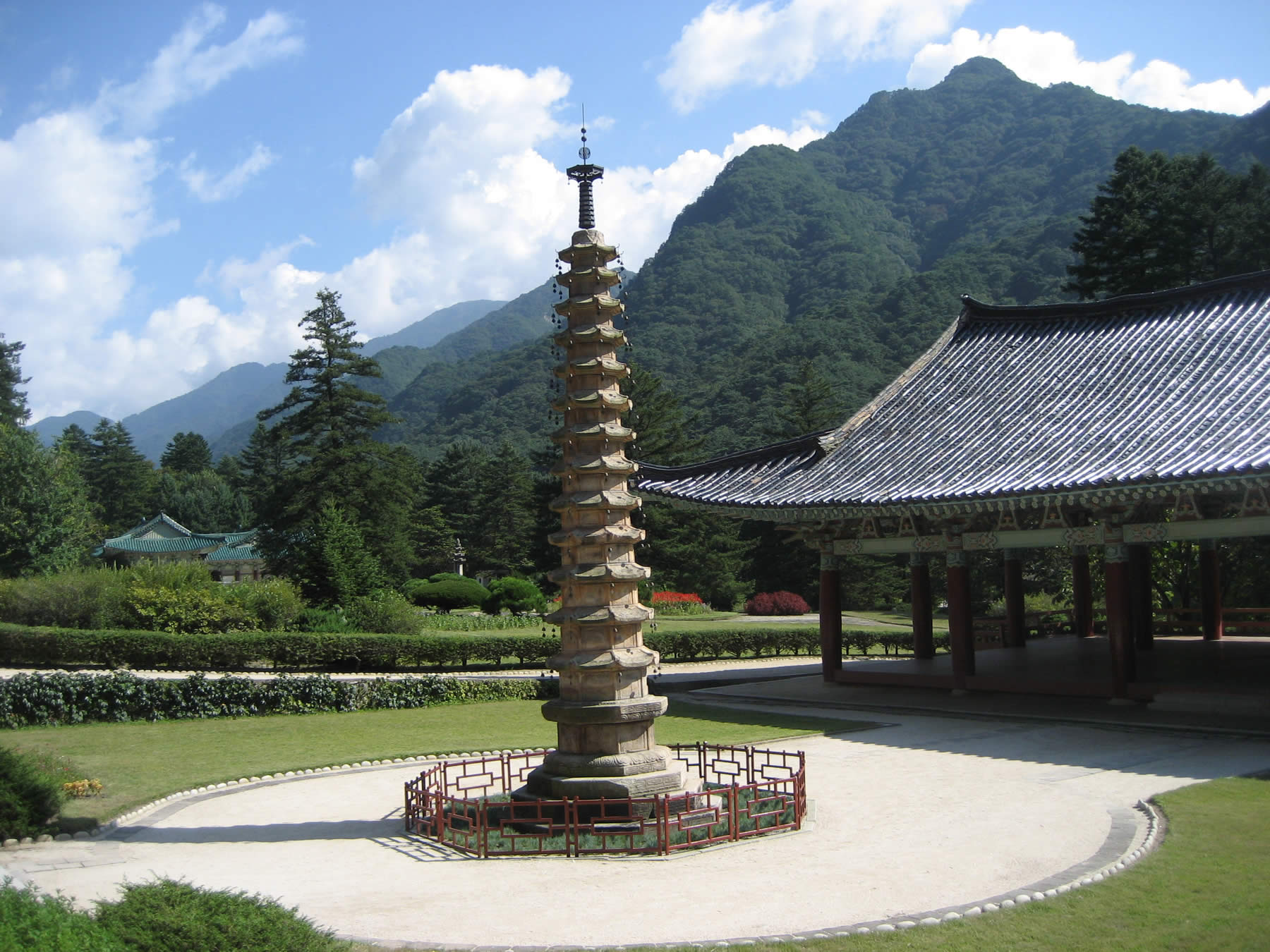 The Pohyon Temple, at the entrance to the Sangwon Valley, Mount Myohyang - North Korea. Dates from 1042 CE.